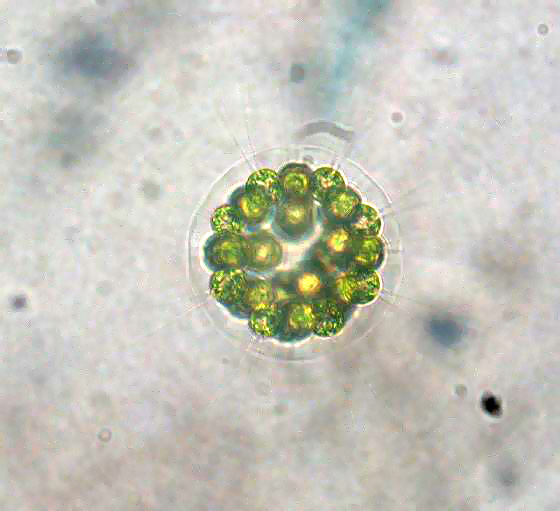 Light microscopy of Eudorina sp. from rice field in Wakayama Pref., Japan ; original comment: ユードリナの1種。鞭毛をもつ単細胞藻体が寒天質の中にならんでいる。いわゆる細胞群体の例。和歌山県・水田の泥から。2005年6月。顕微鏡接眼レンズ押しつけ撮影にて。